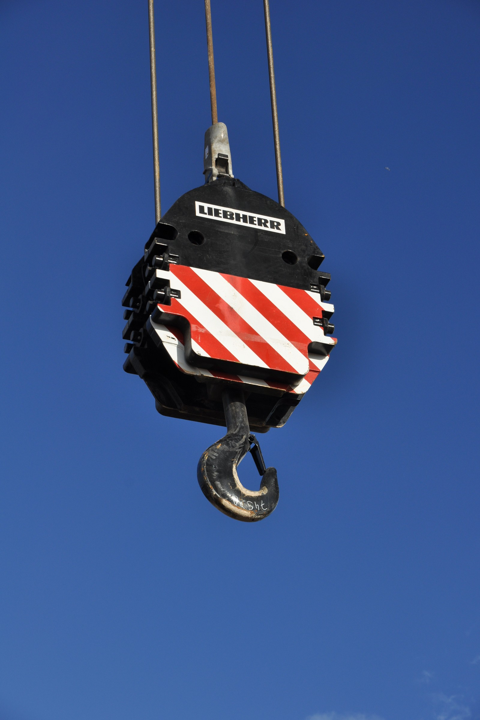 A Liebherr 50 t lifting hook attached to a LR-1600/2 crawler crane.